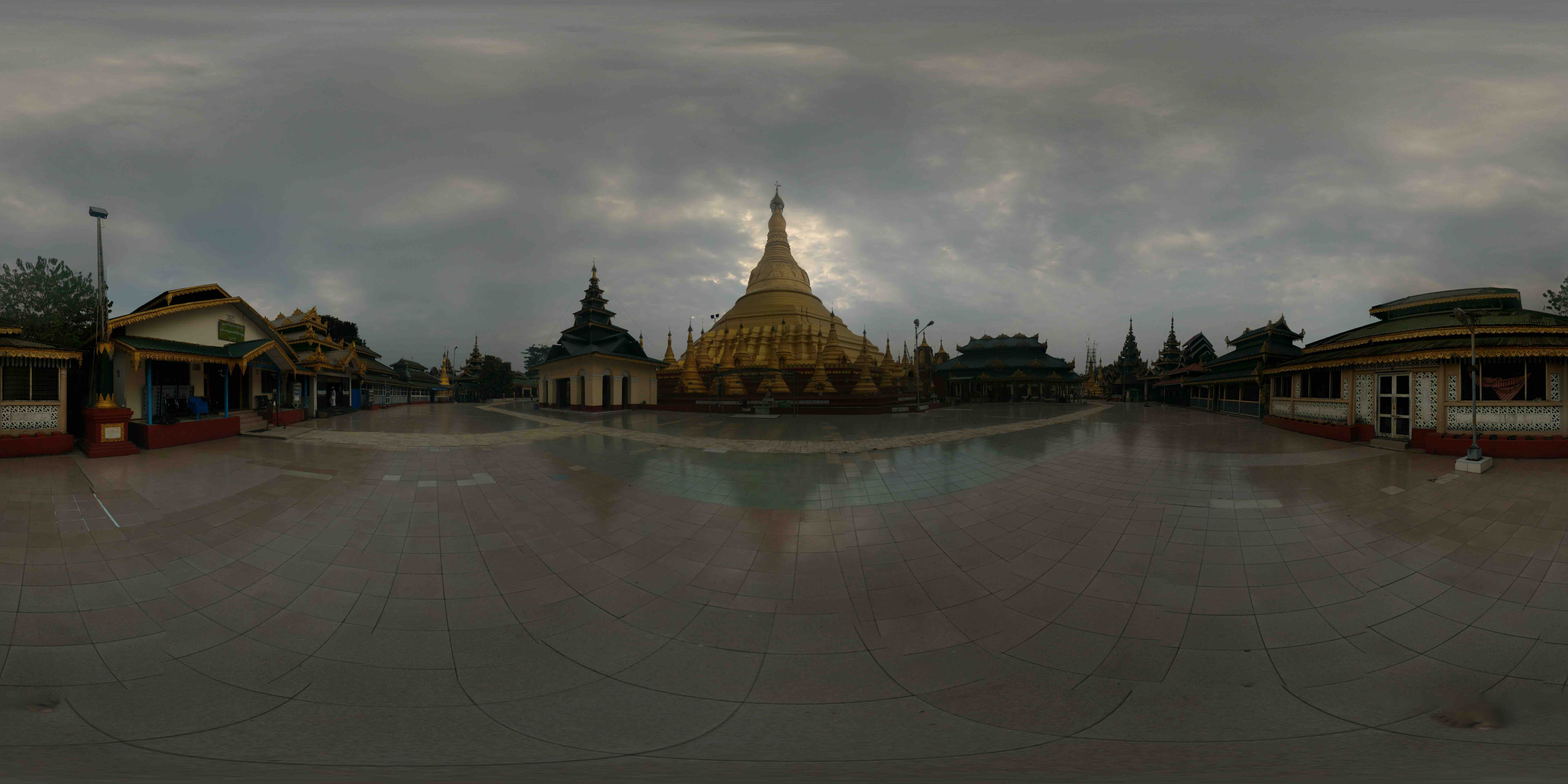 တြံေတးေရႊဆံေတာ္ေစတီ